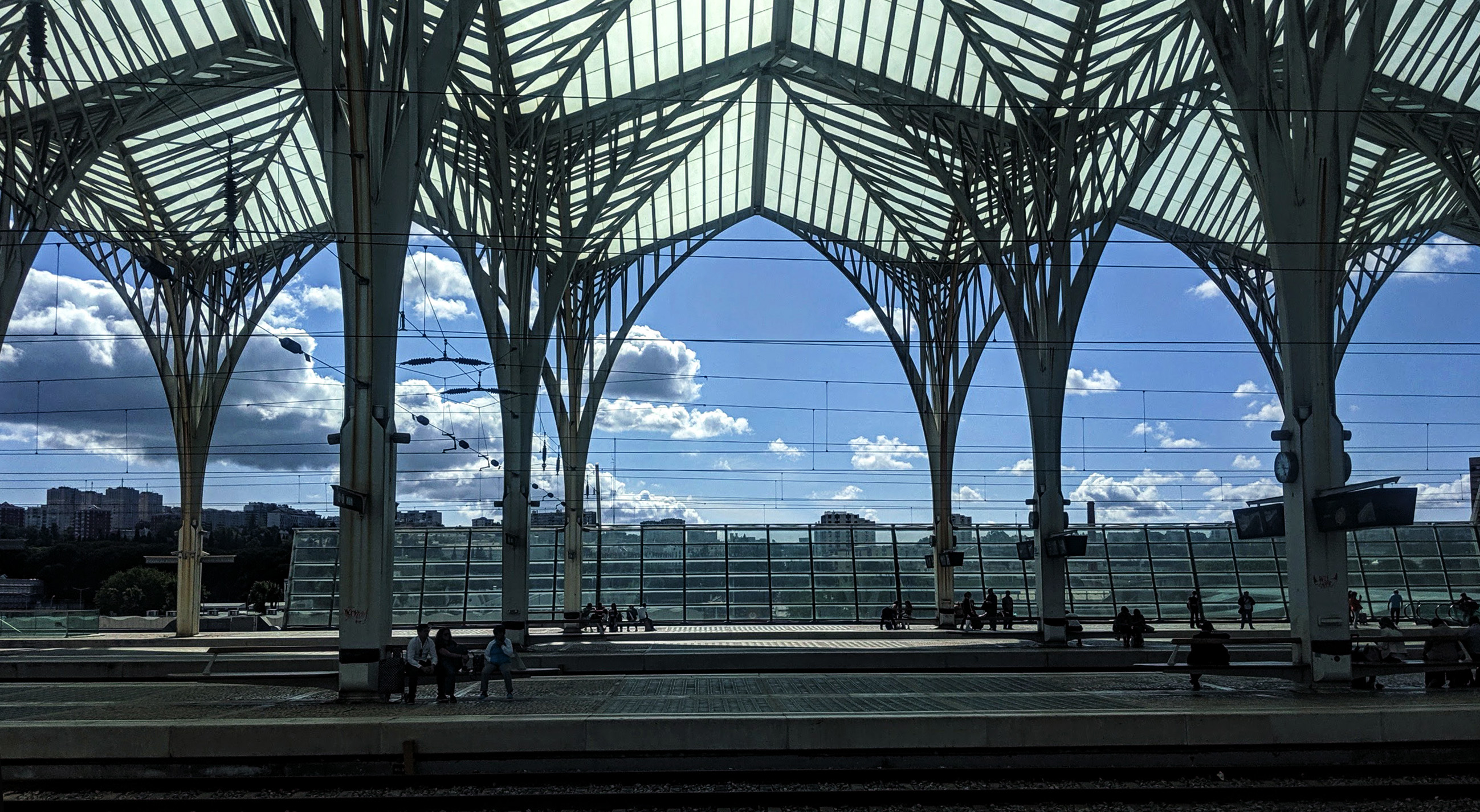 Lisbon Gare do Oriente platforms, view from a train window